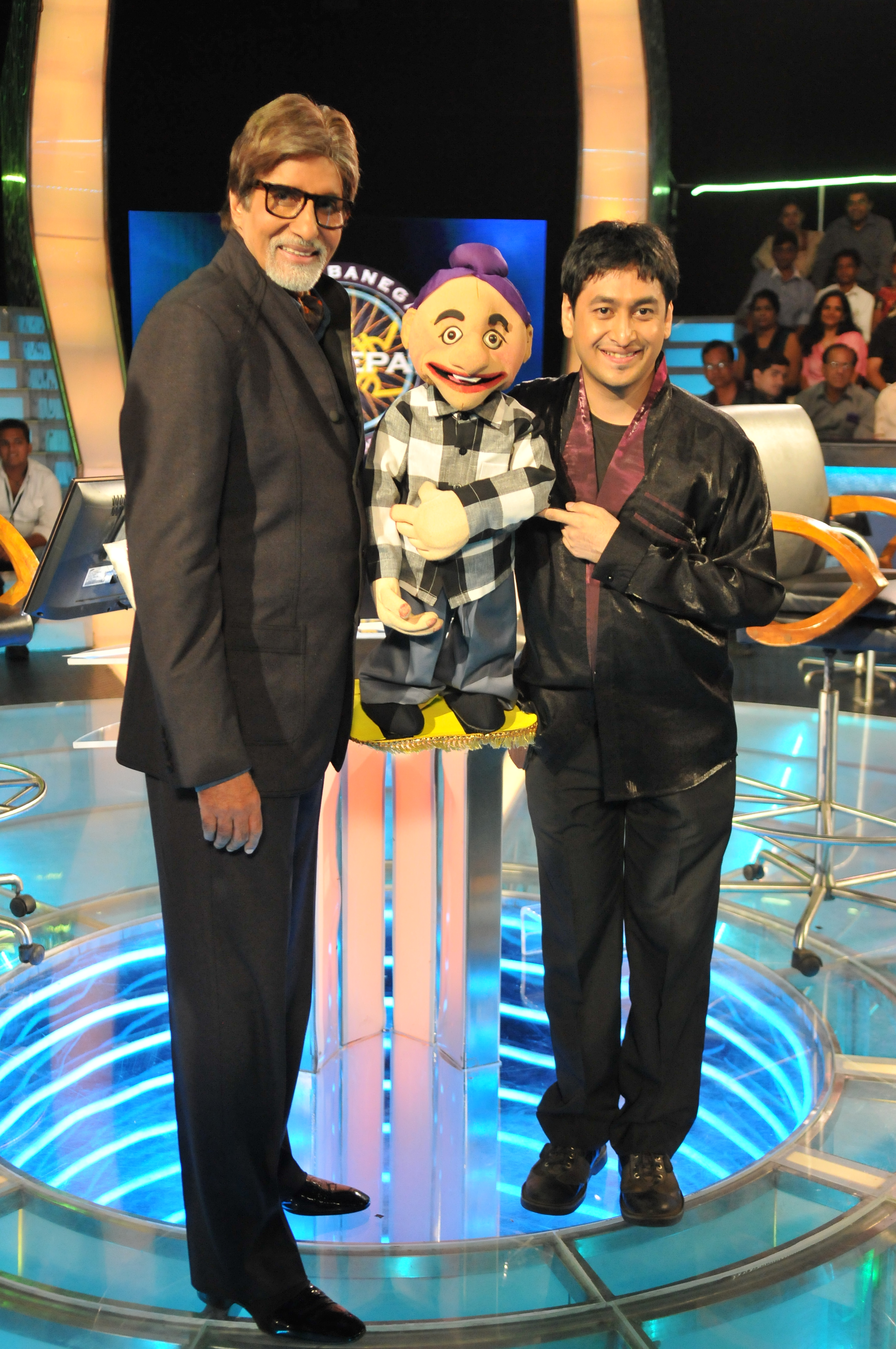 Mumbai